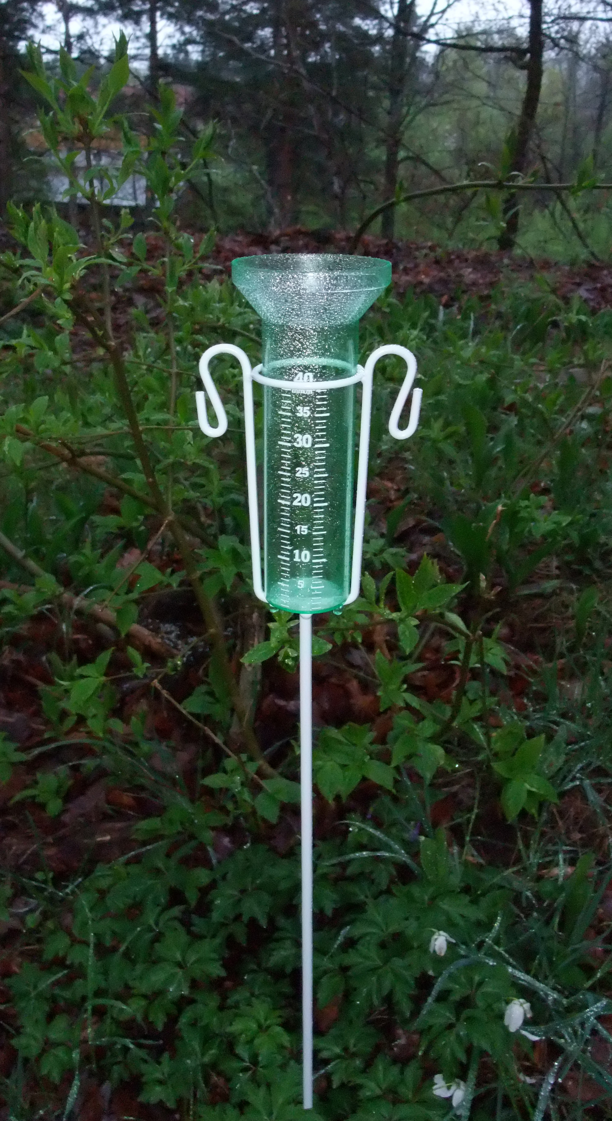 Standard Garden rain gauge